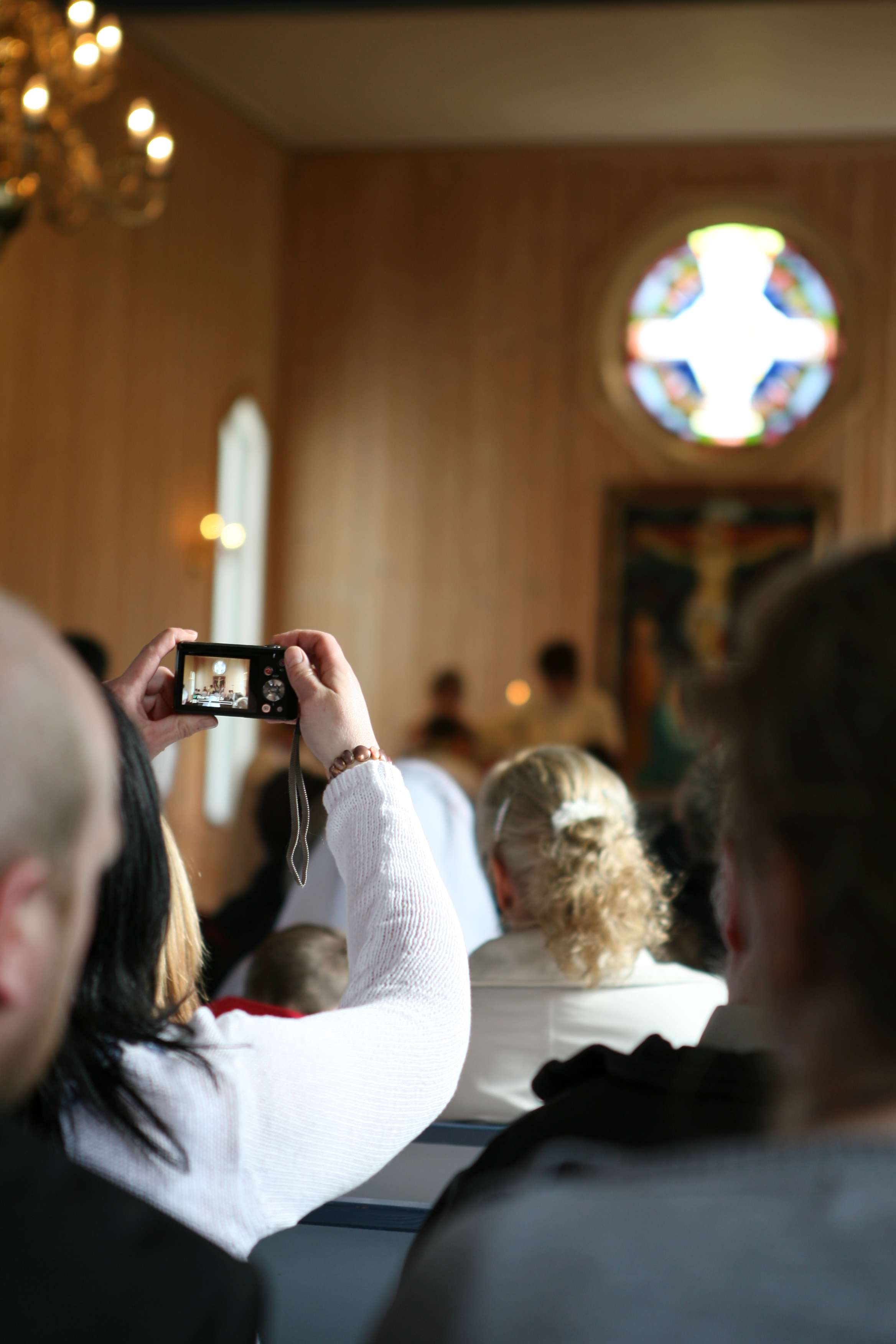 A point-and-shoot camera with an electonic viewfinder used for taking a picture in a church in Norway.